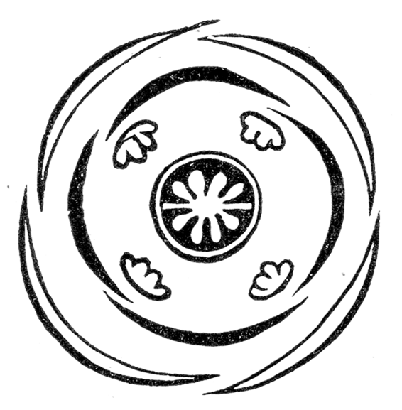 flower diagram of Plantago major